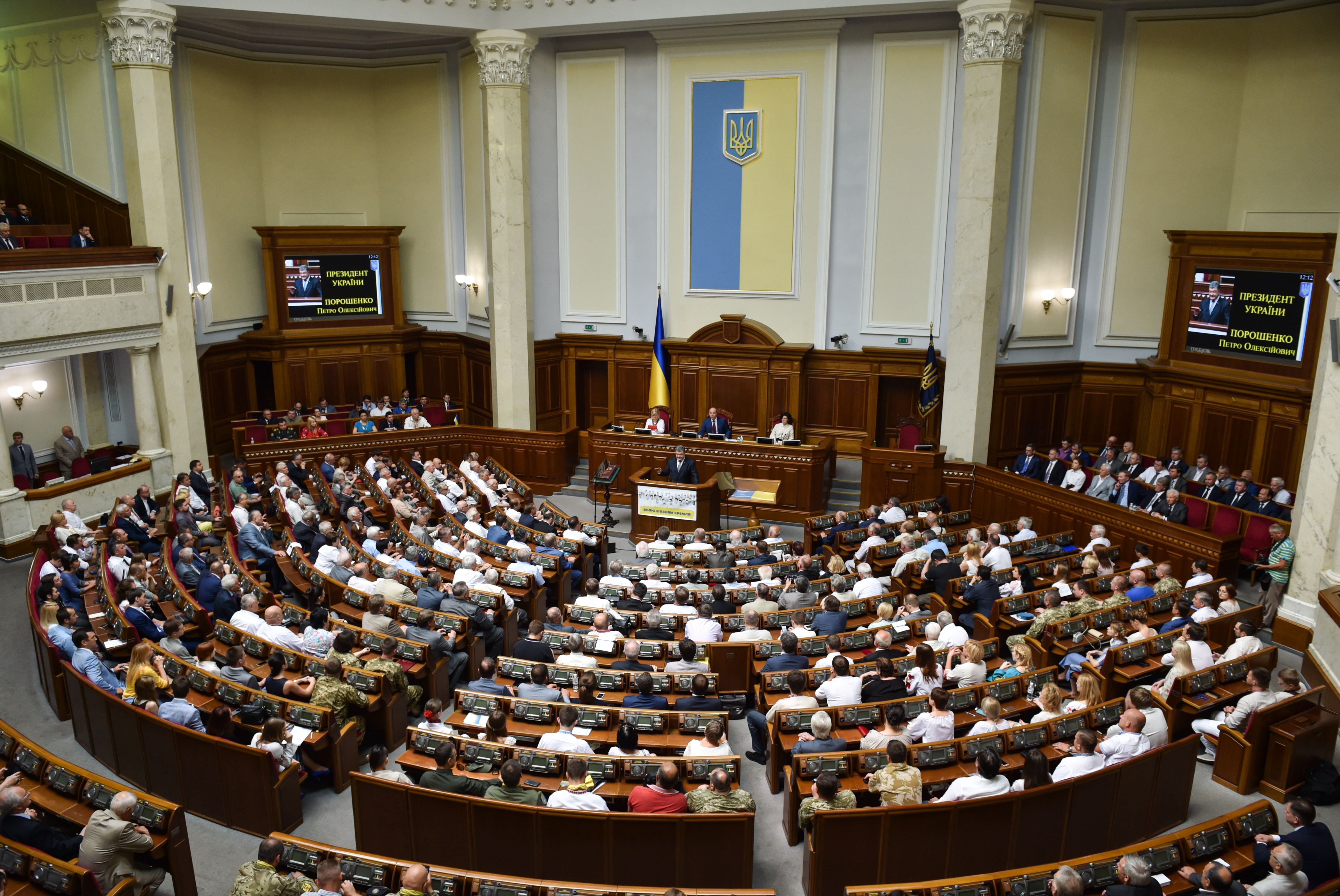 Participation of Petro Poroshenko in festivities on occasion of Day of Constitution of Ukraine 2016-06-28